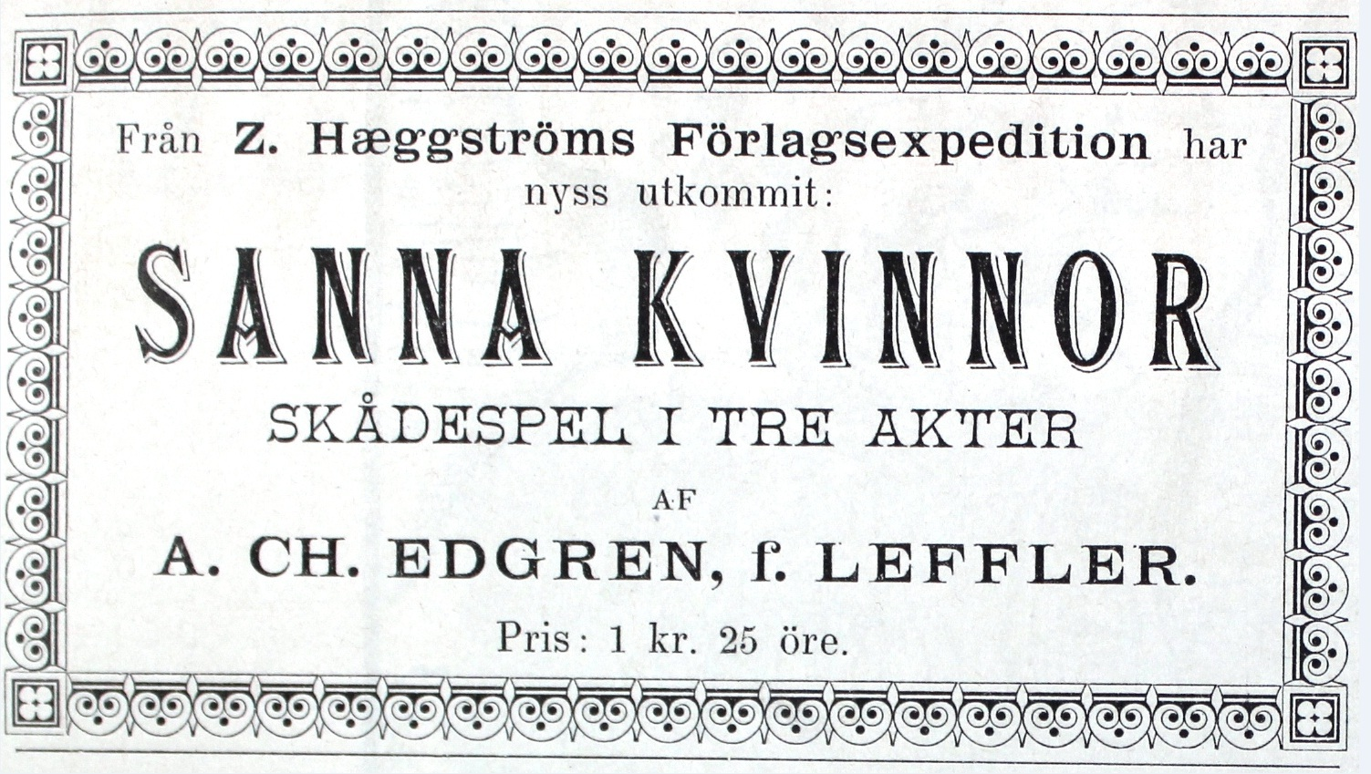 An ad for the printed version of Anne Charlotte Leffers play "Sanna kvinnor" (True Women, 1883), published in the Swedish magazine Ny Illustrerad Tidning October 23 1883.